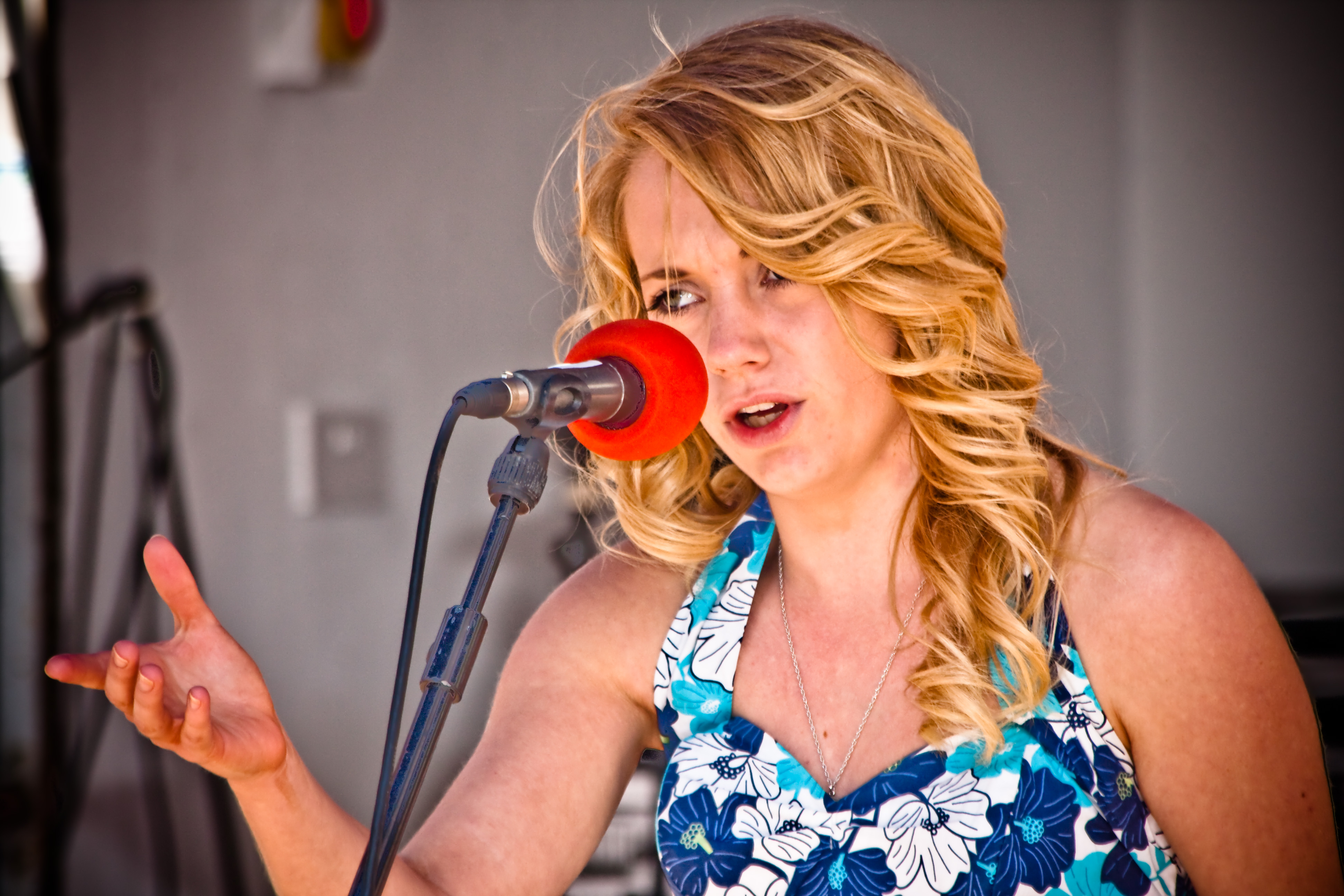 Kirsty Michele Anderson, winner of Open Mic UK, performs at the May Merrie in Kingston upon Thames.